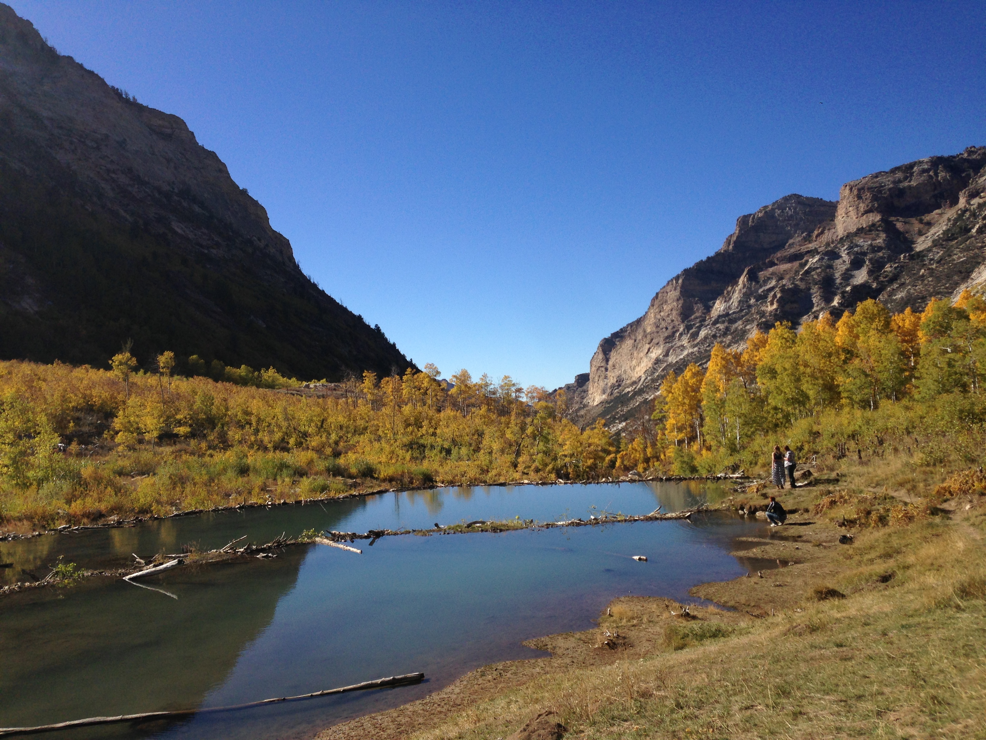 Beaver pond along the Changing Canyon Trail in Lamoille Canyon, Nevada